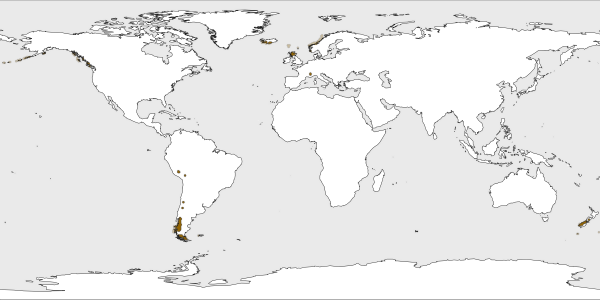 Subpolar oceanic climate.